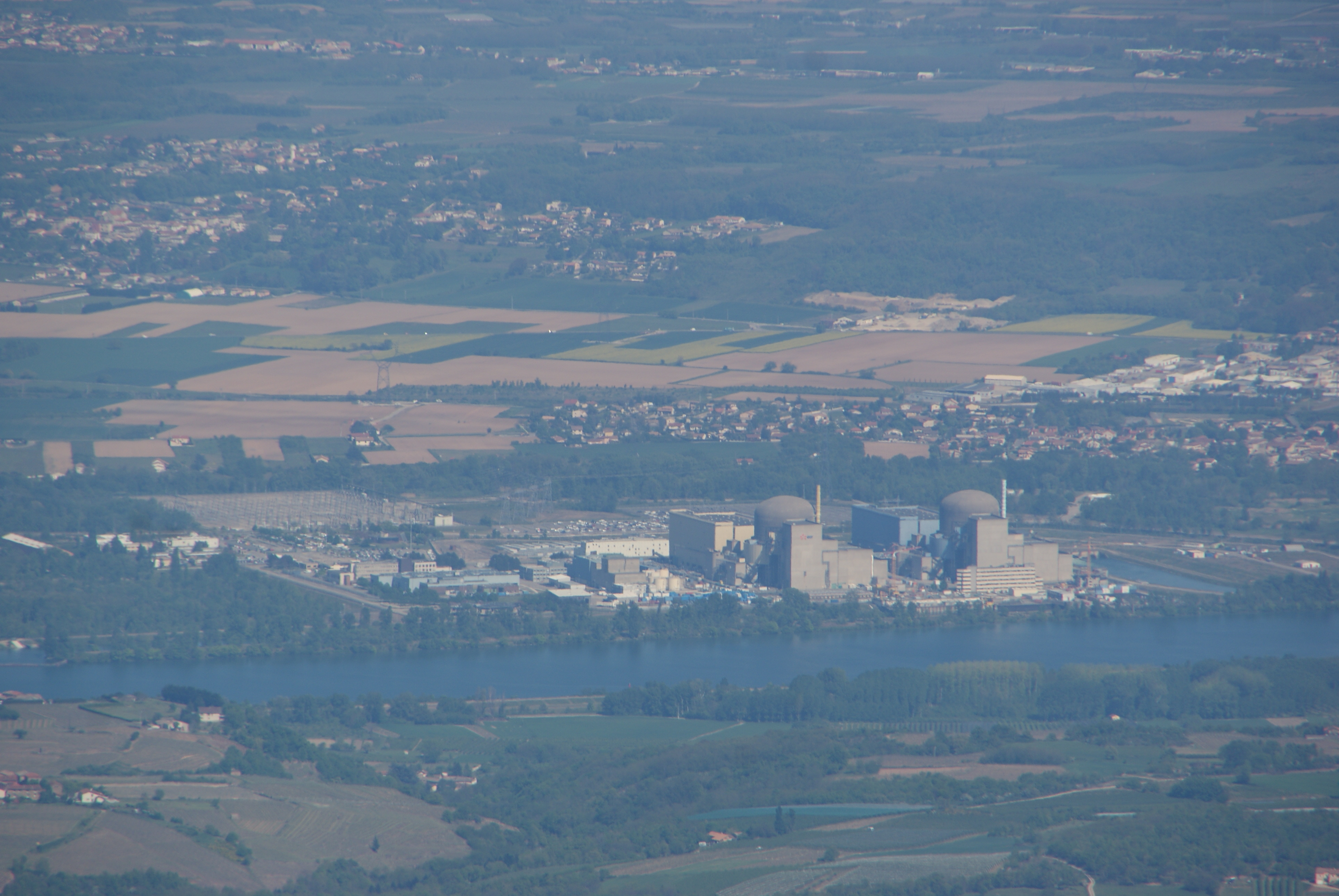 Saint-Alban nuclear power plant and surroundings, seen from the Crêt de l'Œillon. In the foreground the river Rhône, behind right Saint-Maurice, left Clonas-sur-Varèze.